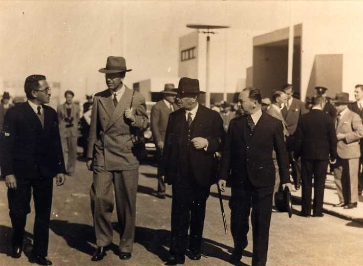 Yerid Hamizrach Tel Aviv 1932. אלכסנדר עזר-יבזרוב, מאיר דיזנגוף יורש העצר השבדי גוסטב השישי אדולף ומר שלמה יפת ביריד המזרח, 1932